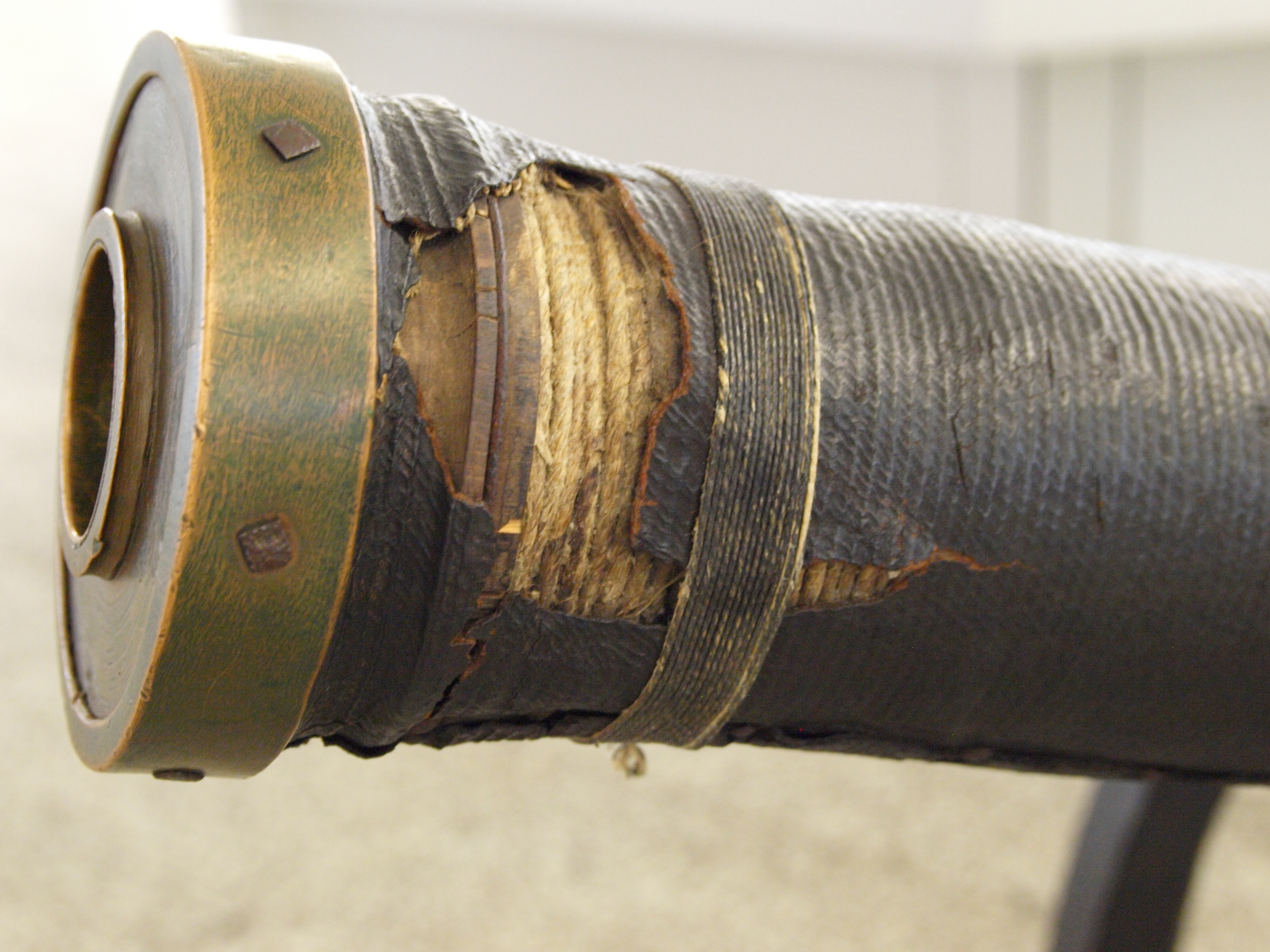 Leather cannon calibre 37 mm, detail of the damaged barrel near the muzzle. Germanisches Nationalmuseum Nürnberg Inventory Number W 614. Barrel made of copper, ropes, wood, leather and iron.